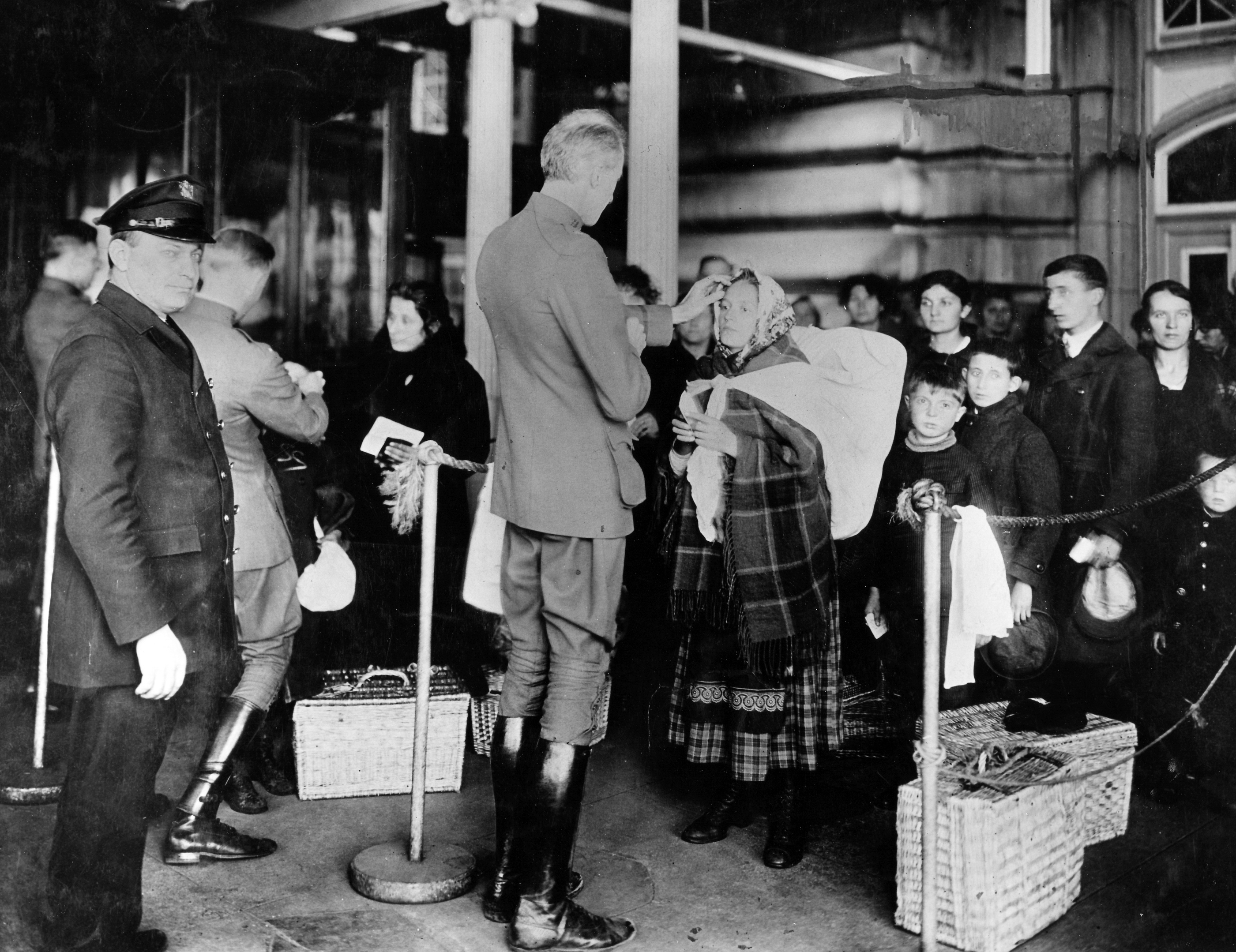 Public Health Service physicians checking immigrants arriving to the United States for signs of illness. The immigration law of 1891 made it mandatory that all immigrants coming into the United States undergo health inspection by Public Health Service physicians. The largest inspection center was on Ellis Island in New York Harbor. In this 1910 photo, physicians are looking at the eyes for signs of trachoma. Credit: NIH